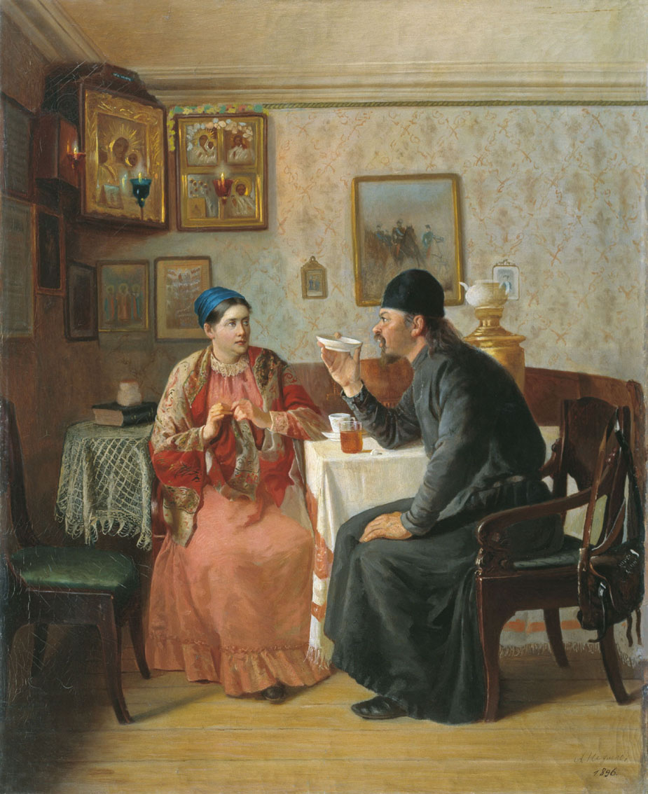 Russian Tea Party. Artist Alexey Avvakumovich Naumov (1840-1895)